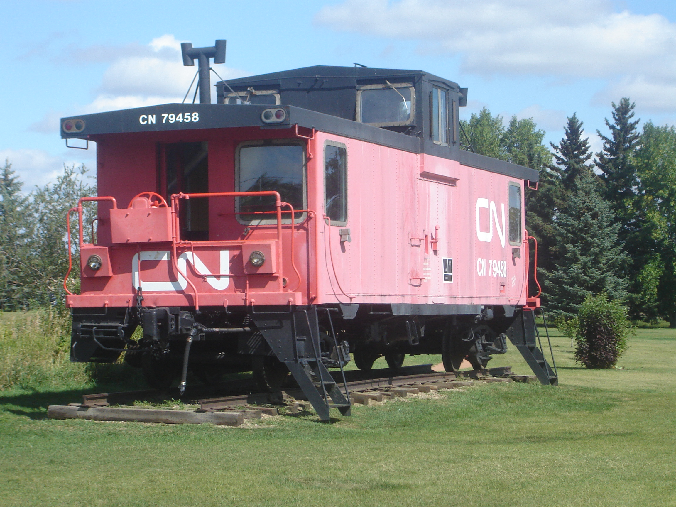 CNR Caboose in Vegreville, Alberta